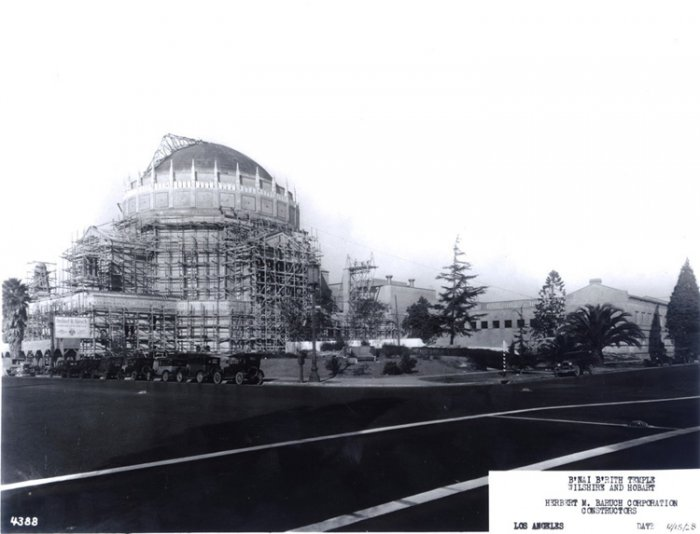 Wilshire Boulevard Temple under construction in 1928.